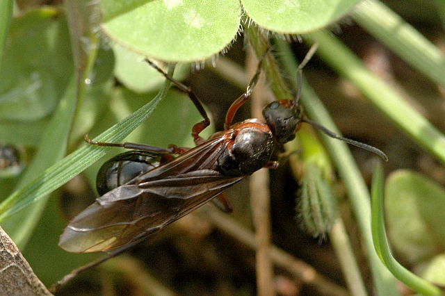 Formica rufa from Commanster, Belgian High Ardennes .